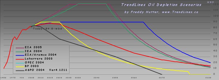 Trend Lines of Oil Depletion Scenarios